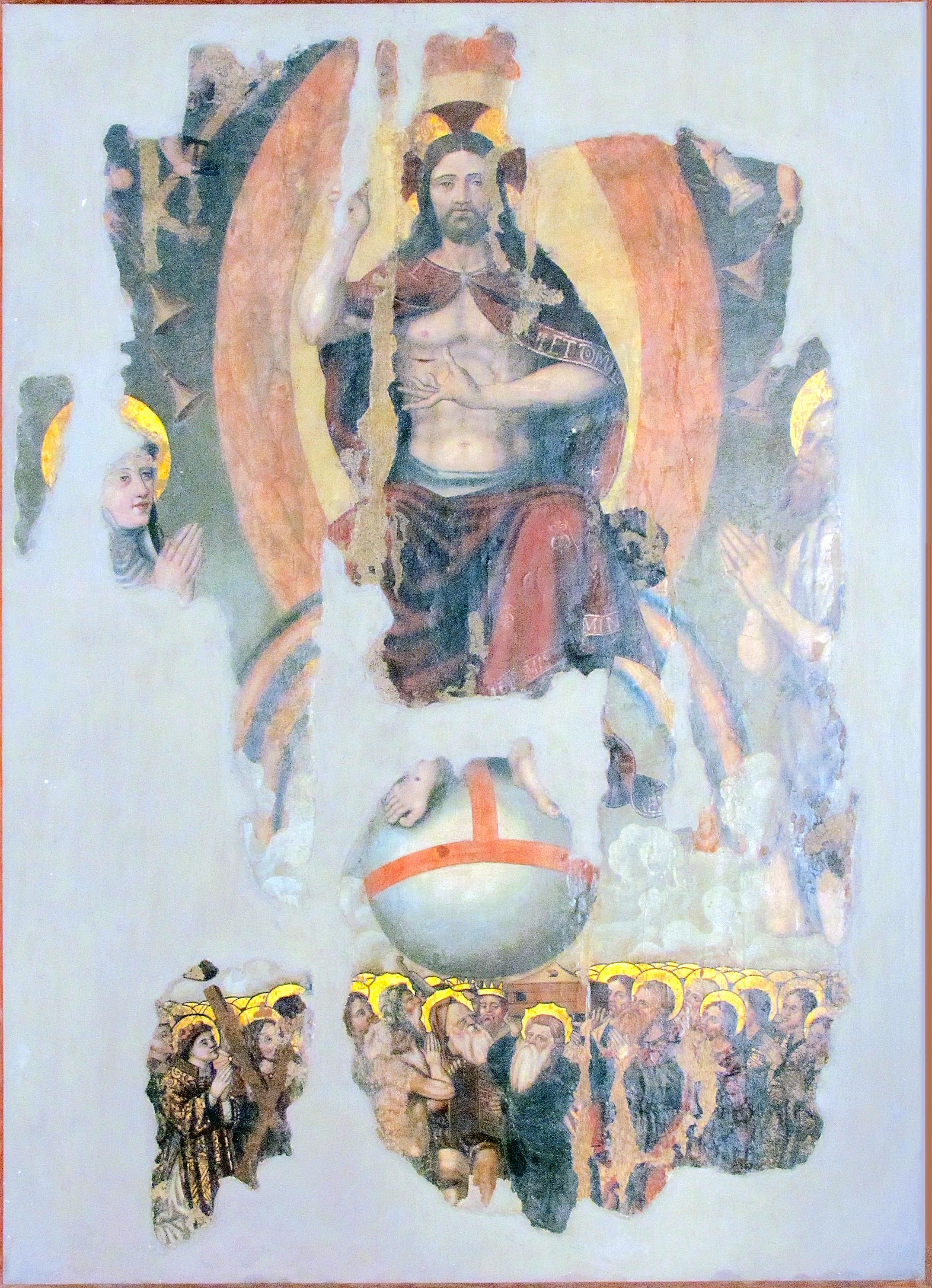 Christ the Judge, Johannes De Matta